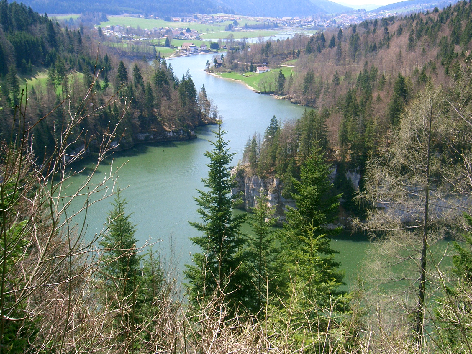 Doubs river